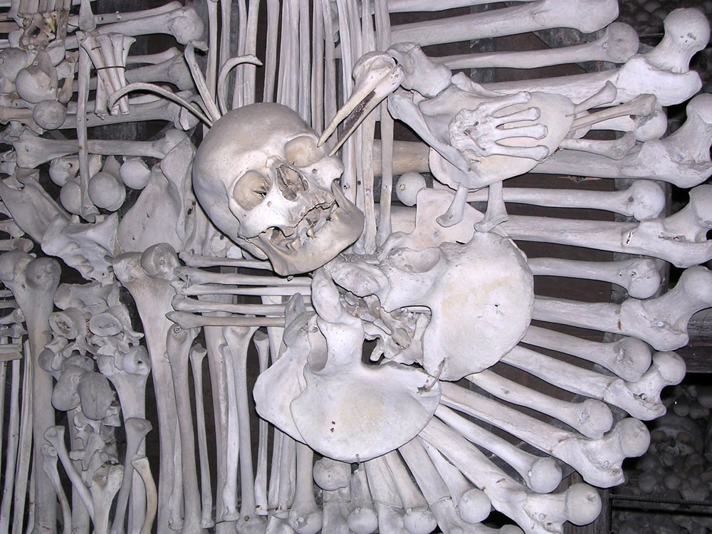 Detail of the Schwarzenberg coat-of-arms. The skull represents that of a Turkish soldier. Sedlec Ossuary, Czech Republic.